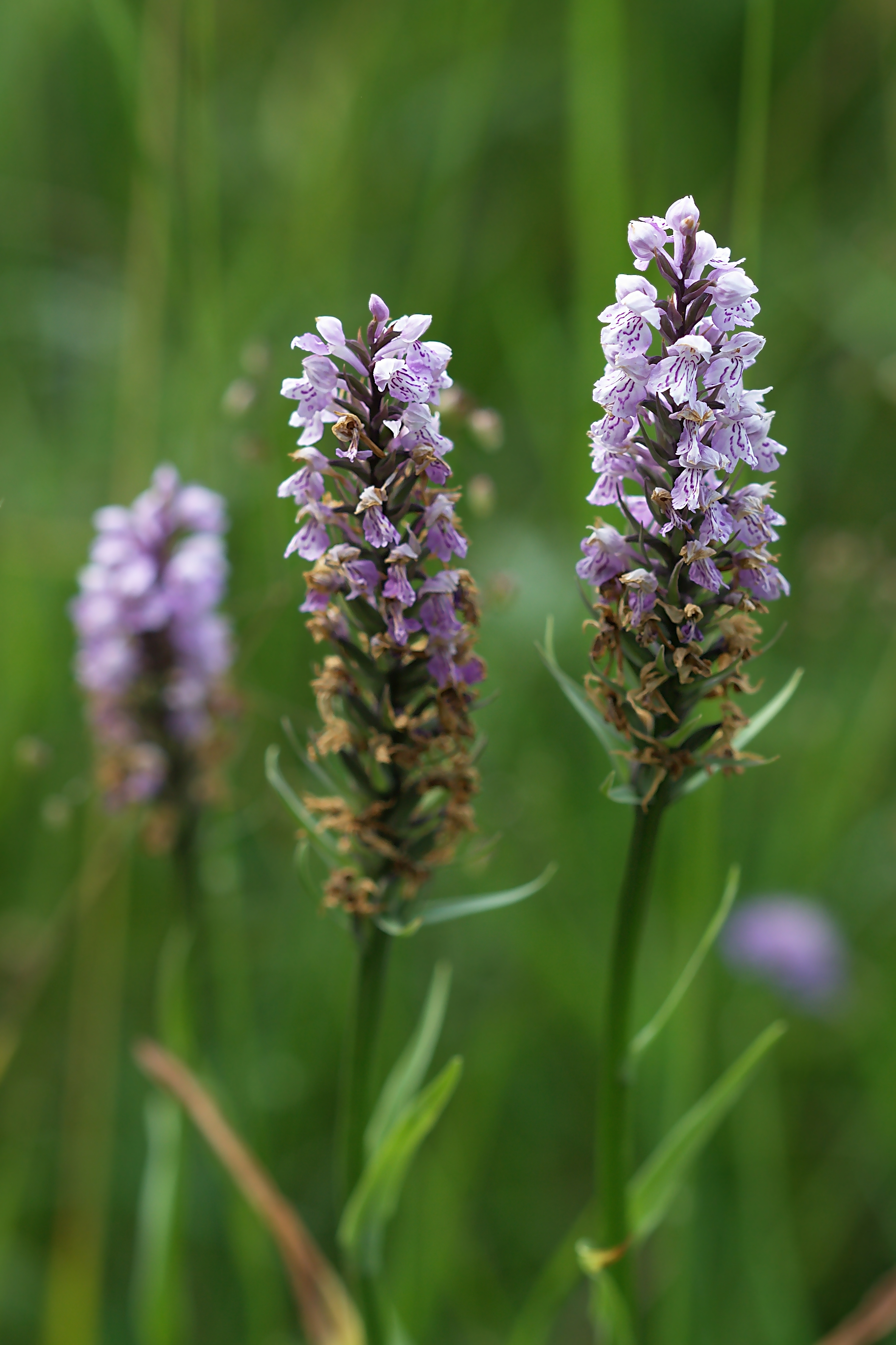 Spotted Orchid in the natural reserve Schwarzhölzl, Bavaria (NSG-00460.01)